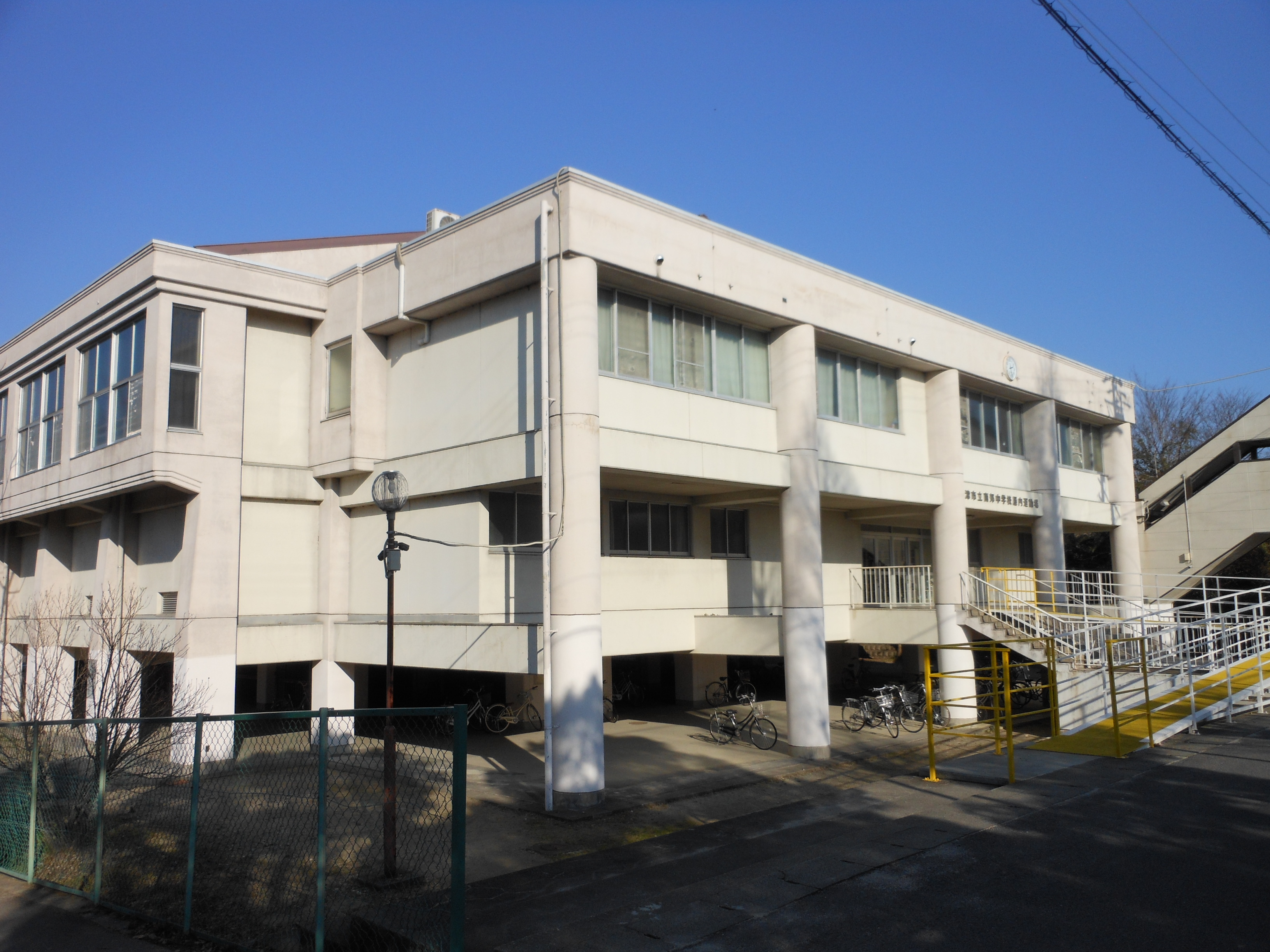 This is the Gym for Tsu city Nanko Lower Secondary School in Mie, Japan.